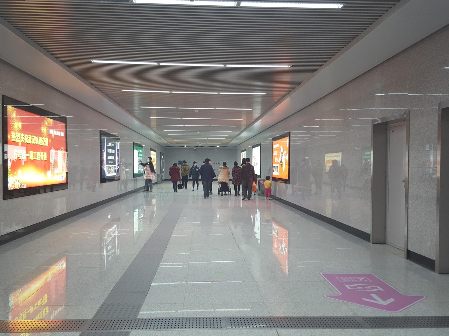 Transfer channel of Changqinghuayuan Station, Wuhan Metro